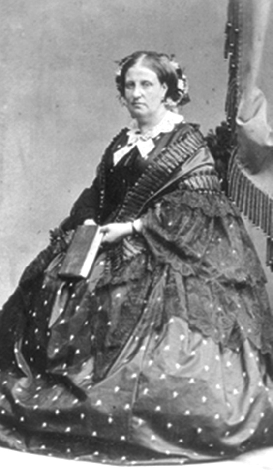 Maria Antonia of the Two Sicilies (1814-1898), Royal Princess of the Two Sicilies, Grand Duchess of Tuscany, consort of Leopold II of Habsburg-Lothringen, Grand Duke of Tuscany.